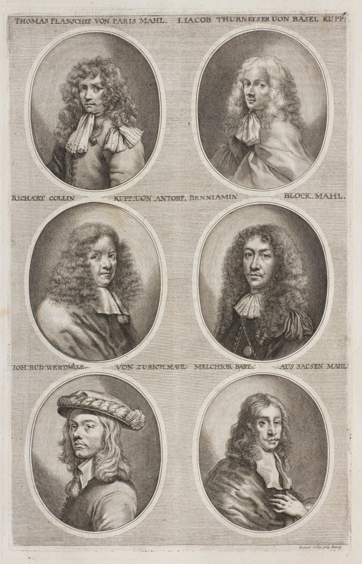 Engraving from the German Academy of the Noble Arts of Architecture, Sculpture and Painting, or Teutsche Academie, a comprehensive dictionary of art by Joachim von Sandrart, published in 1675 and later illustrated with engravings in 1683 THOMAS PLANSCHET VON PARIS MAHL. I. IACOB THURNEYSER UON BASEL KUPF: RICHART COLLIN KUPF: UON ANTORF. BENNIAMIN BLOCK. MAHL. IOH: RUD: WERDMILLER VON ZÜRICH. MAHL: MELCHIOR BARTEL aus SACSEN MAHL: Richard Collin sculp Antwerp